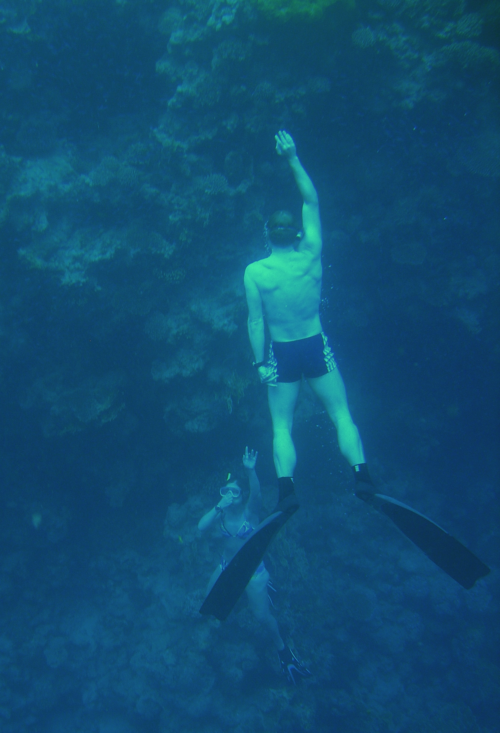 Photograph of couple free diving in the Blue Hole near Dahab in Sinai.